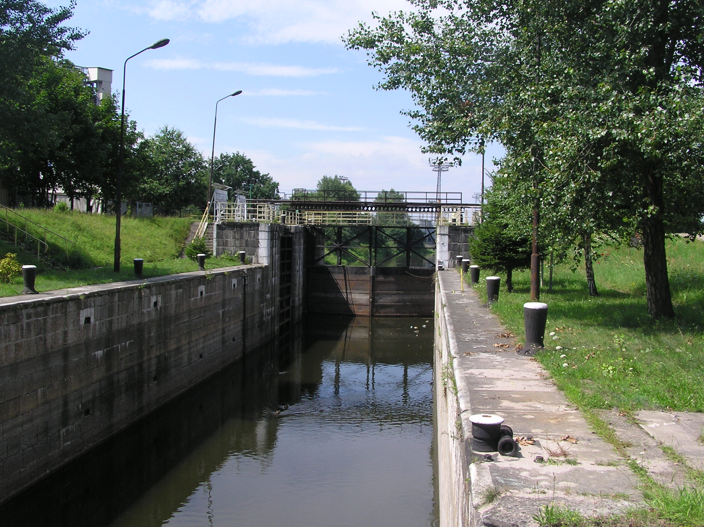 Wrocław, Oder River, trail side Oder waterway (european waterway E-30), Miejski Canal, Miejska Lock